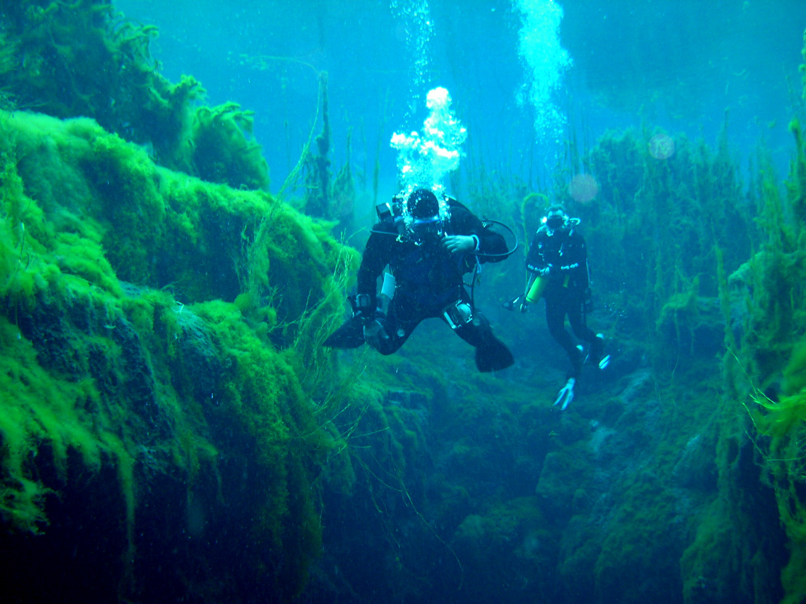 Cave diving underwater view at Piccaninnie Ponds Conservation Park, South Australia, 18 September 2006. Original photo by Mark Whatmough, published October 2006.